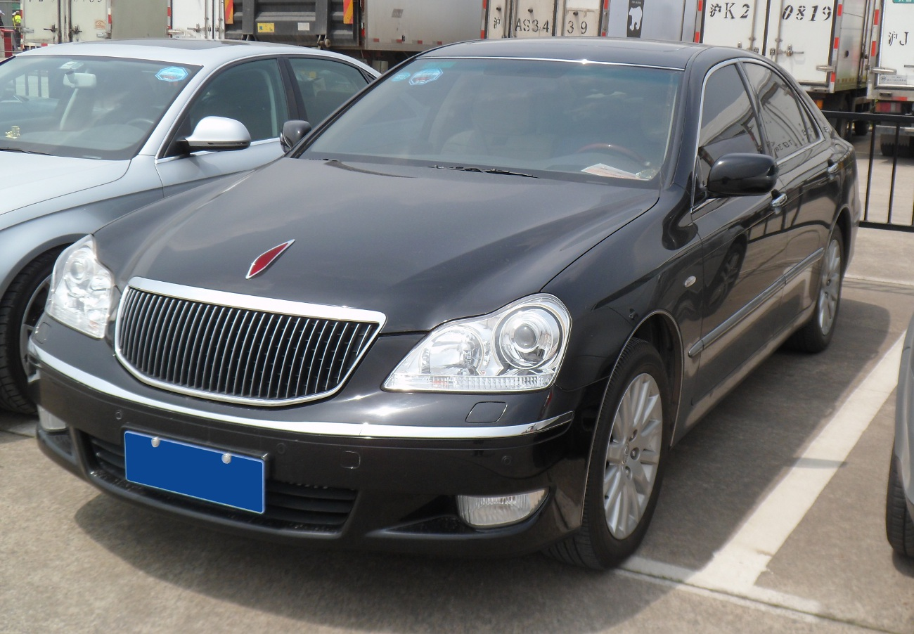 Hongqi HQ3 photographed in Anting, Shanghai municipality, China.